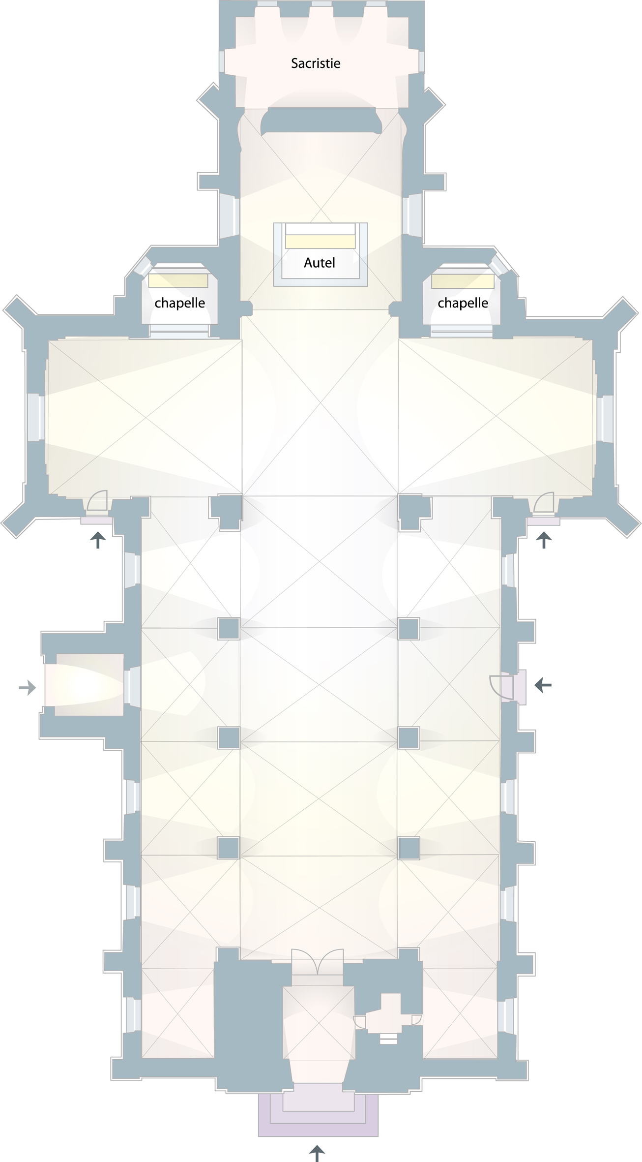 Map of the old church of Caudan, destroyed during the 2nd World War